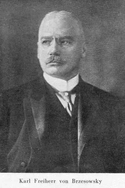 Portrait photos of Franz von Krauß, Franz von Stejskal, Johann von Habrda and Karl von Brzesowsky, chief executives of the I.R. Police in Vienna between 1885 and 1914, printed on p. 38 of the source mentioned 1885.xx.xx. Quelle Zentralinspektorat der Bundessicherheitswache: Sechzig Jahre Wiener Sicherheitswache; Selbstverlag der Bundespolizeidirektion Wien, Wien 1929